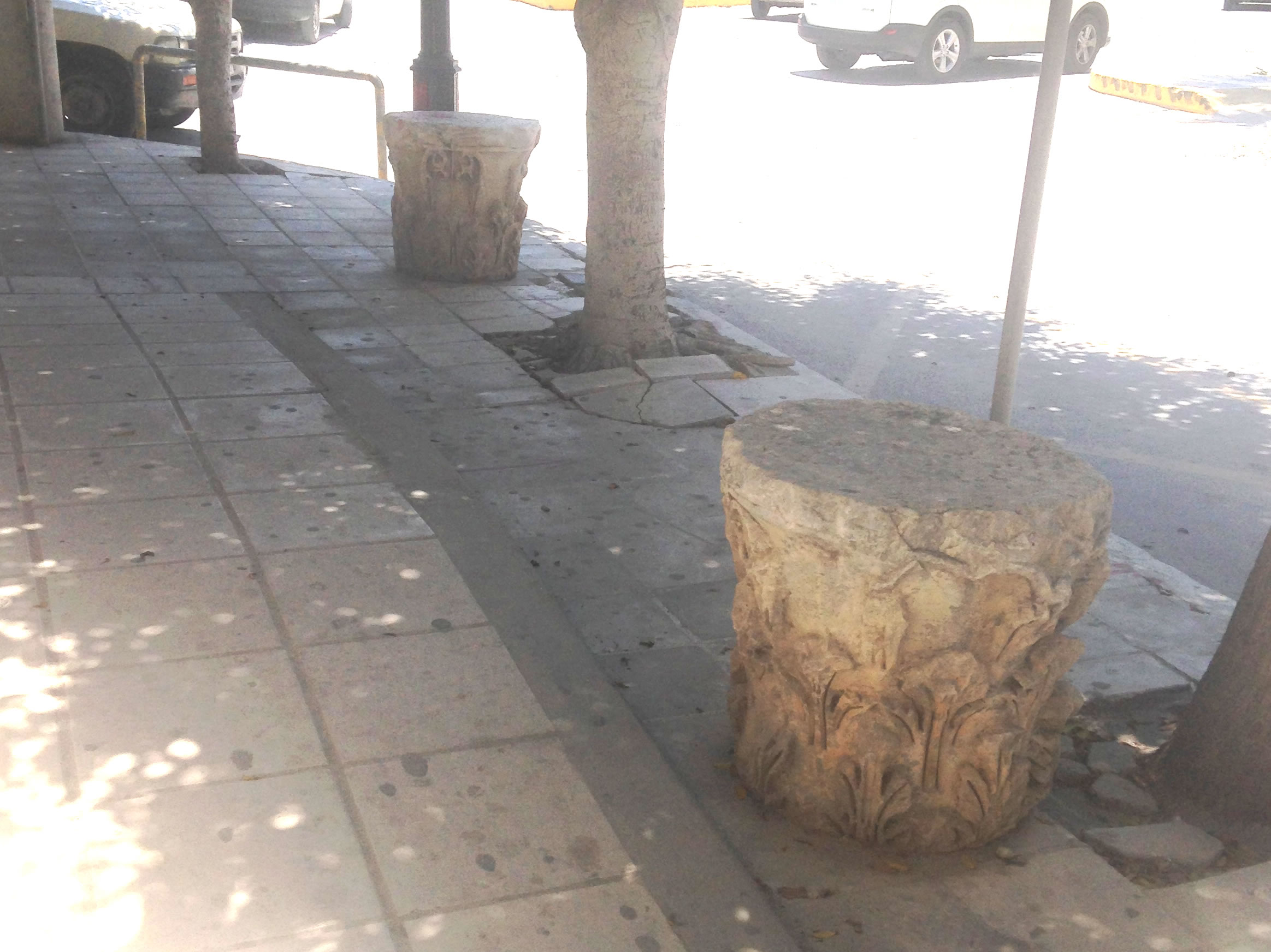 Corinthian columns (Roman) in modern Ierapetra